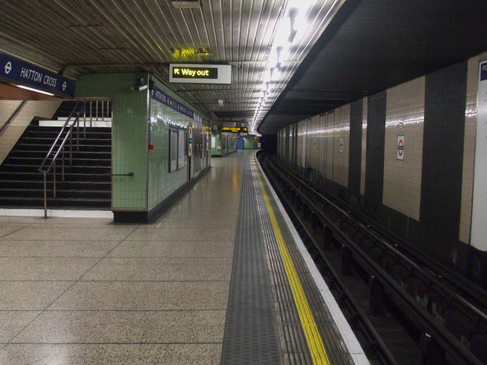 Hatton Cross tube station eastbound platform looking west